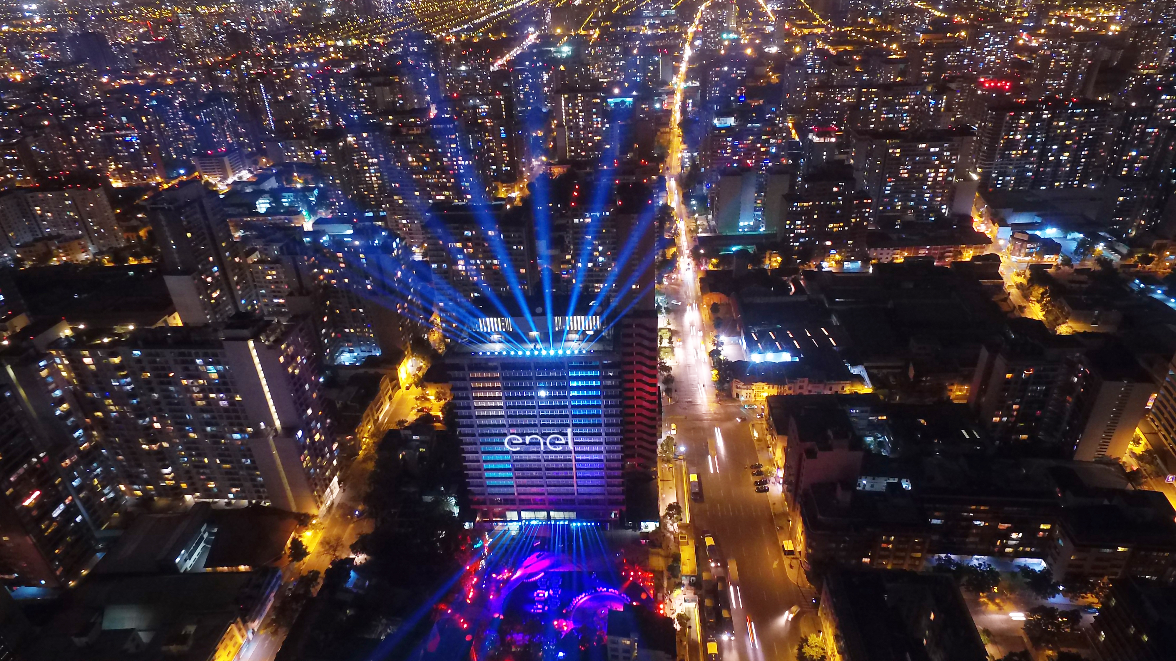 DCIM\100MEDIA\DJI_0129.JPG